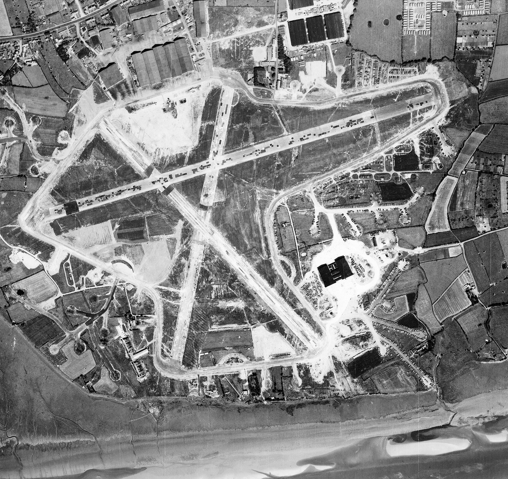 Aerial photograph of Warton airfield, the main runway runs NE/SW, hangars and technical buildings are to the southeast, 10 August 1945. Photograph taken by No. 541 Squadron, sortie number RAF/106G/UK/625. English Heritage (RAF Photography).